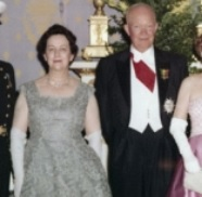 Dwight Eisenhower wearing the cordon and star of the Legion of Honour at the state dinner for France in 1960.